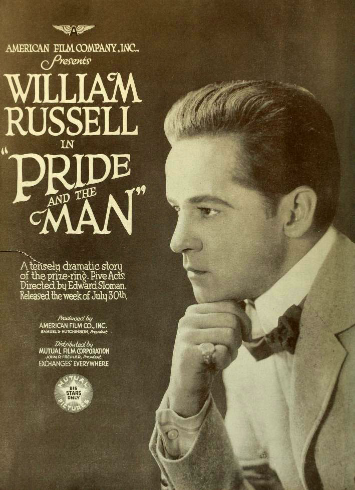 Advertisement in Moving Picture World, Aug 1917 for the film Pride and the Man with William Russell.